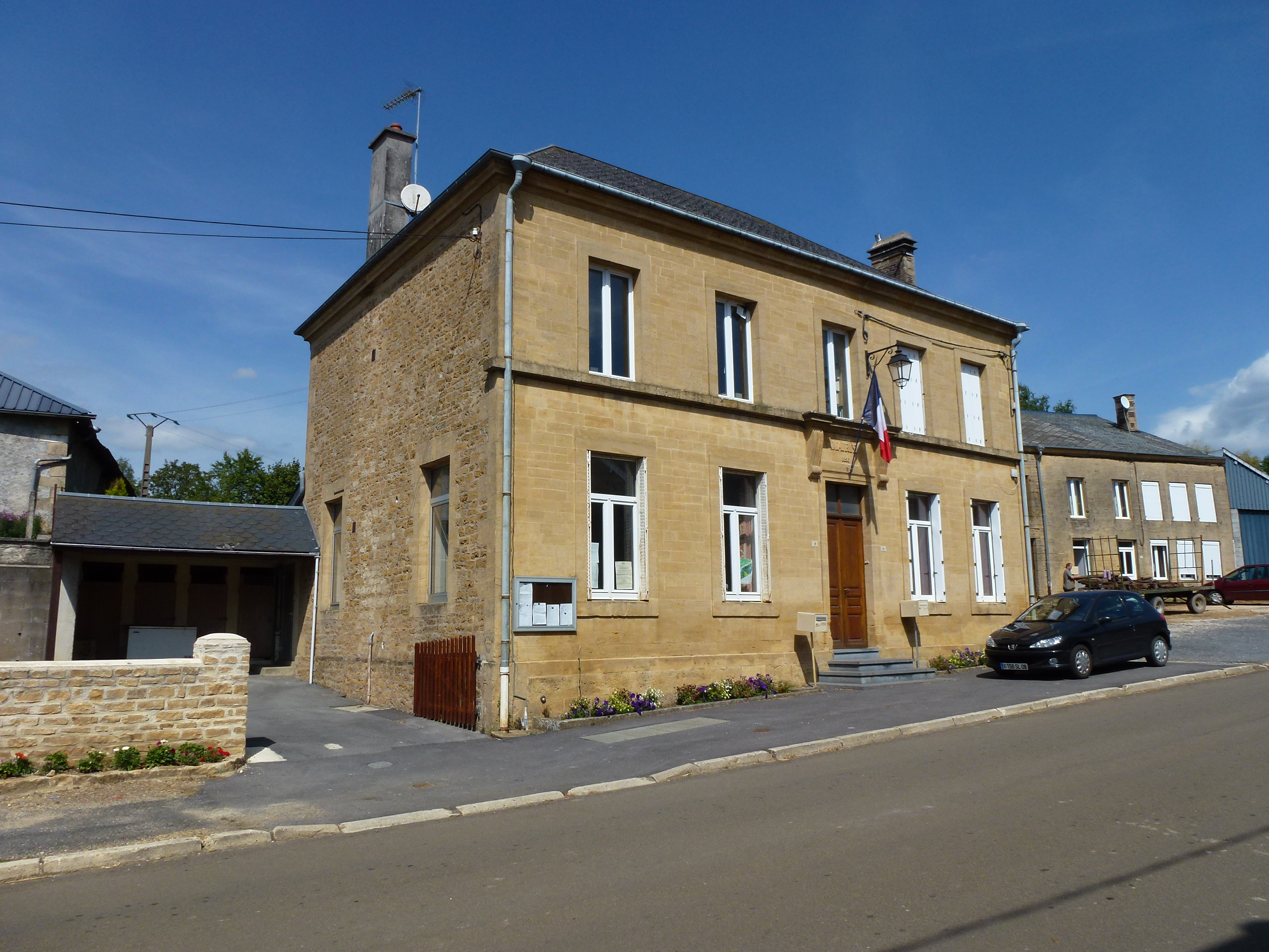 Singly (Ardennes) mairie